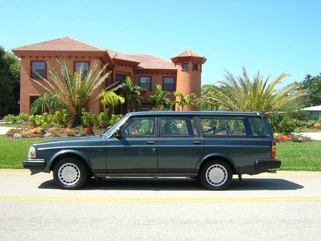 Title: 1990 Volvo 240DL Wagon Full Driver Side View Date: March 18, 2004 Photographer: Nicholas Wourms Source: Photographed myself.